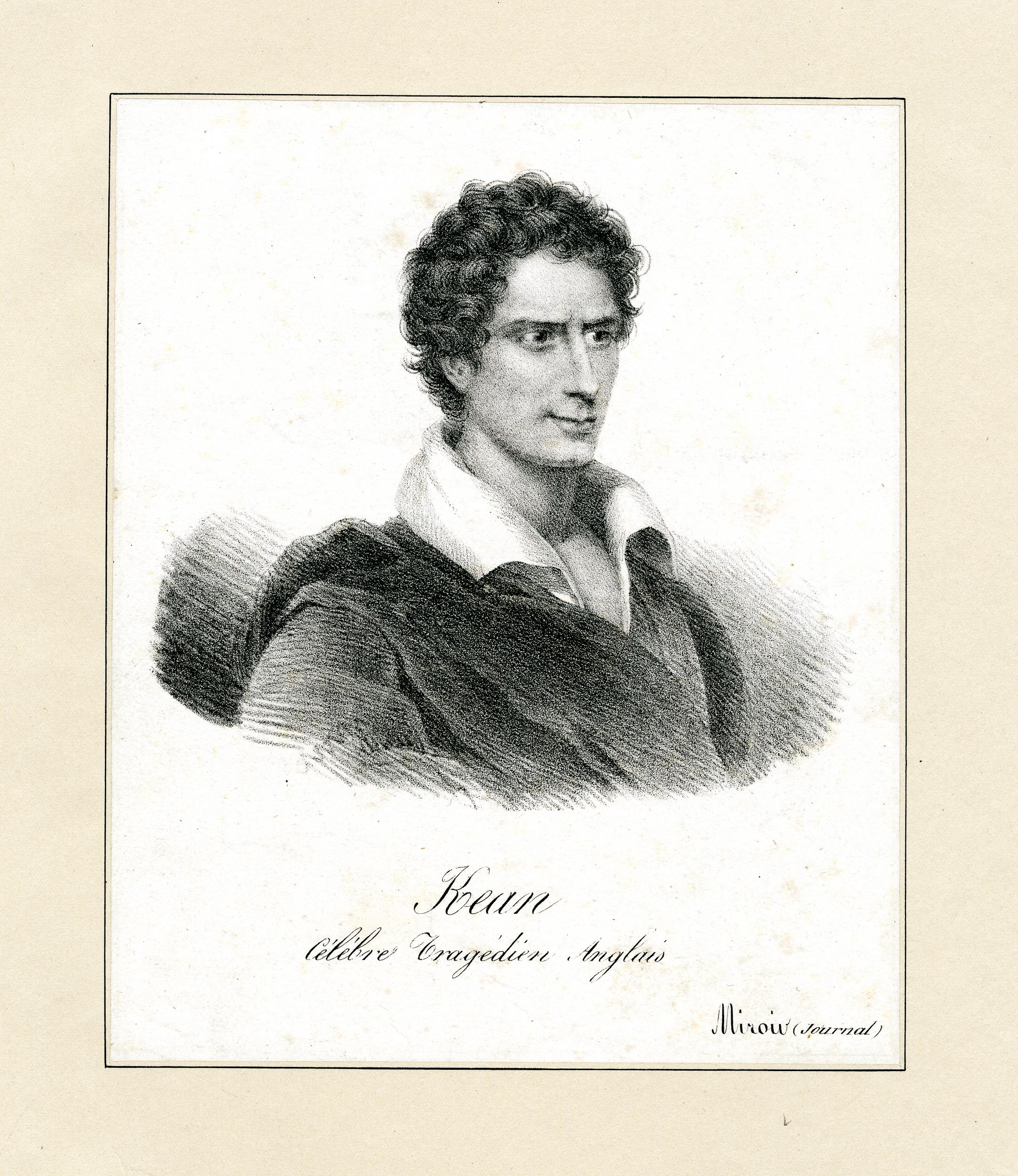 Portrait of the actor Edmund Kean; half length, to the right, in character; a vignette; illustration to the journal 'Le Miroir'. Lithograph